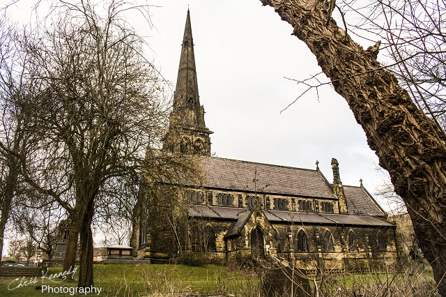 Brookfield Church